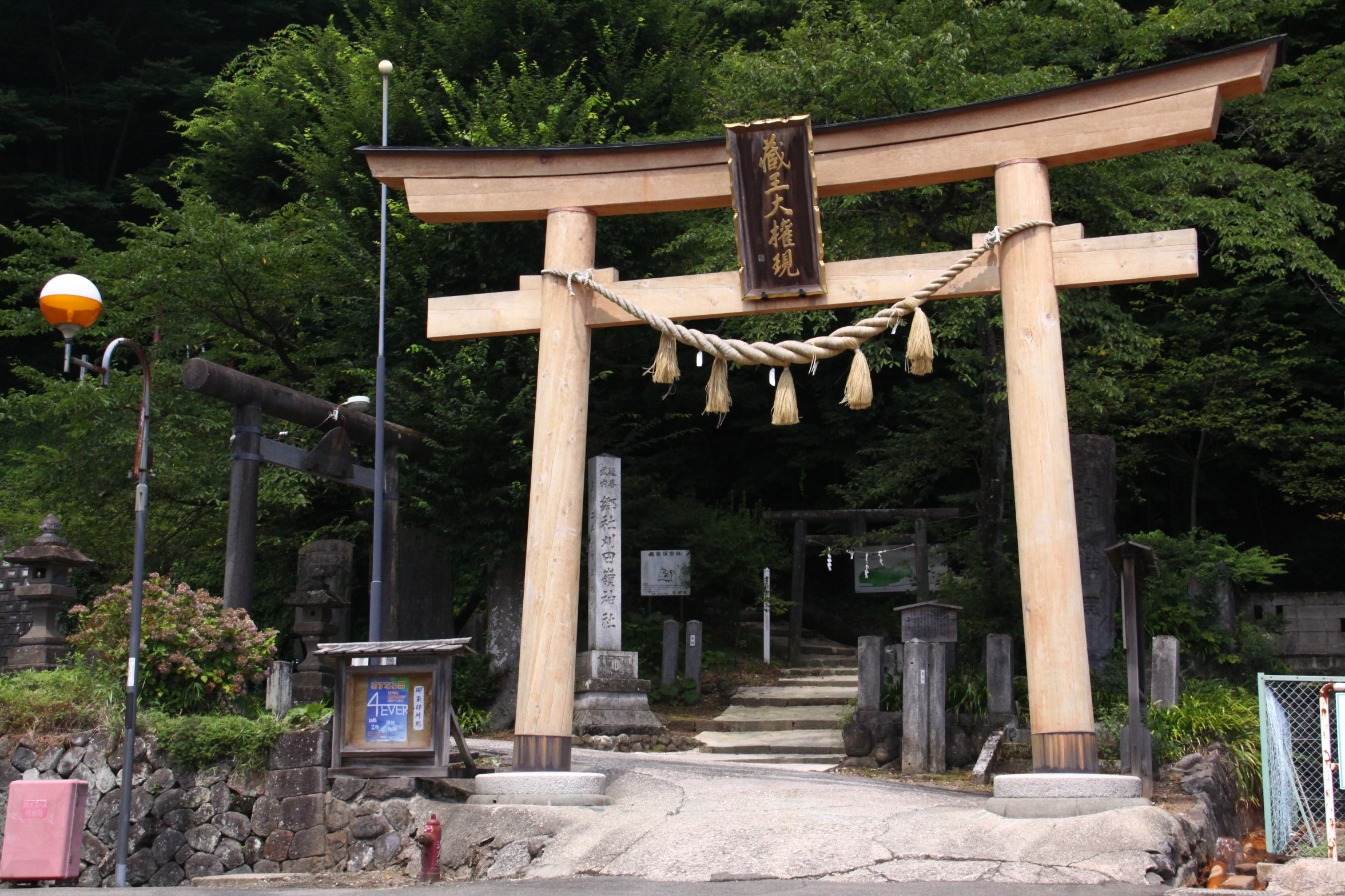 Kattamine jinja Gate